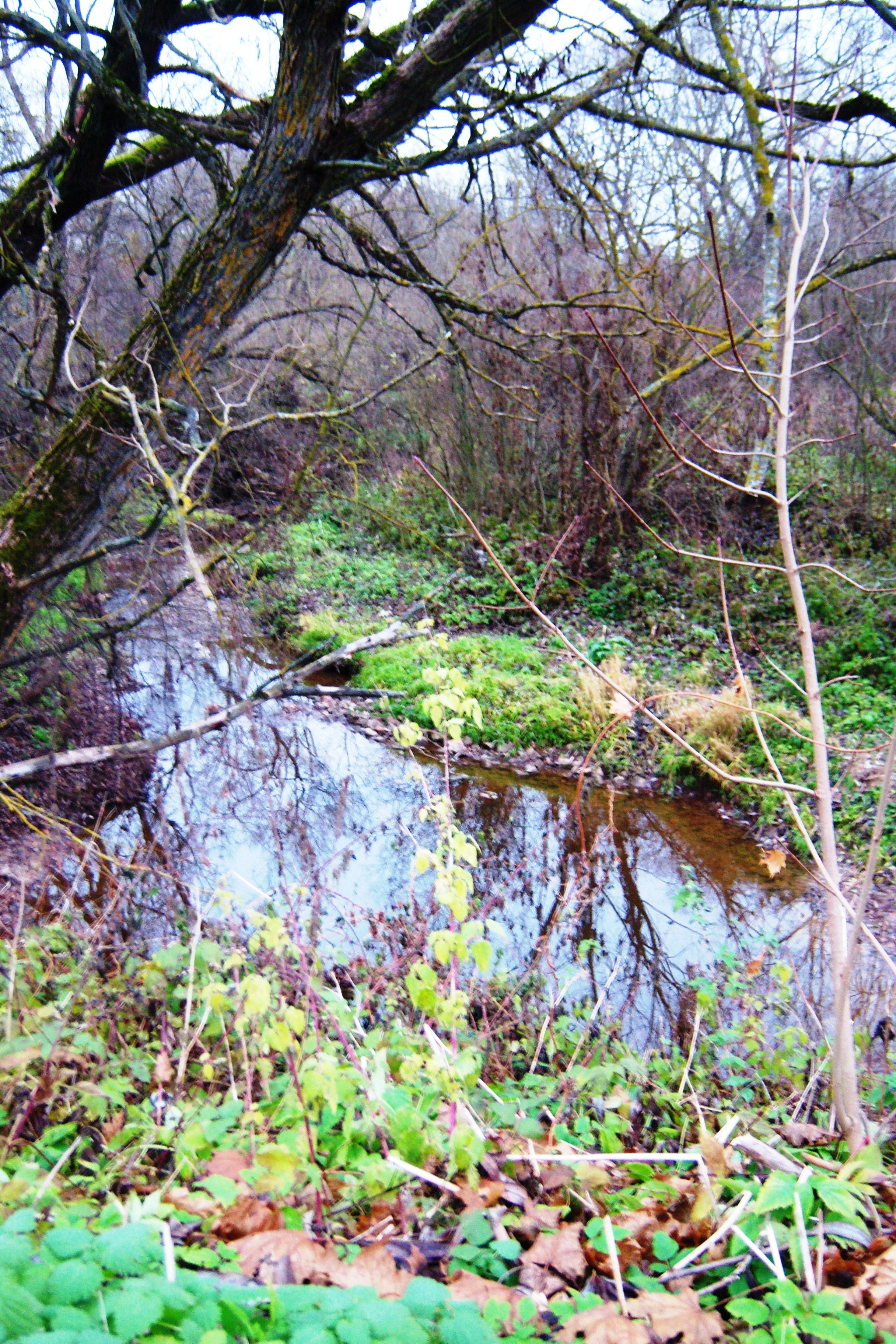 Striūna River in Panevėžiukas, Kaunas District. Lithuania